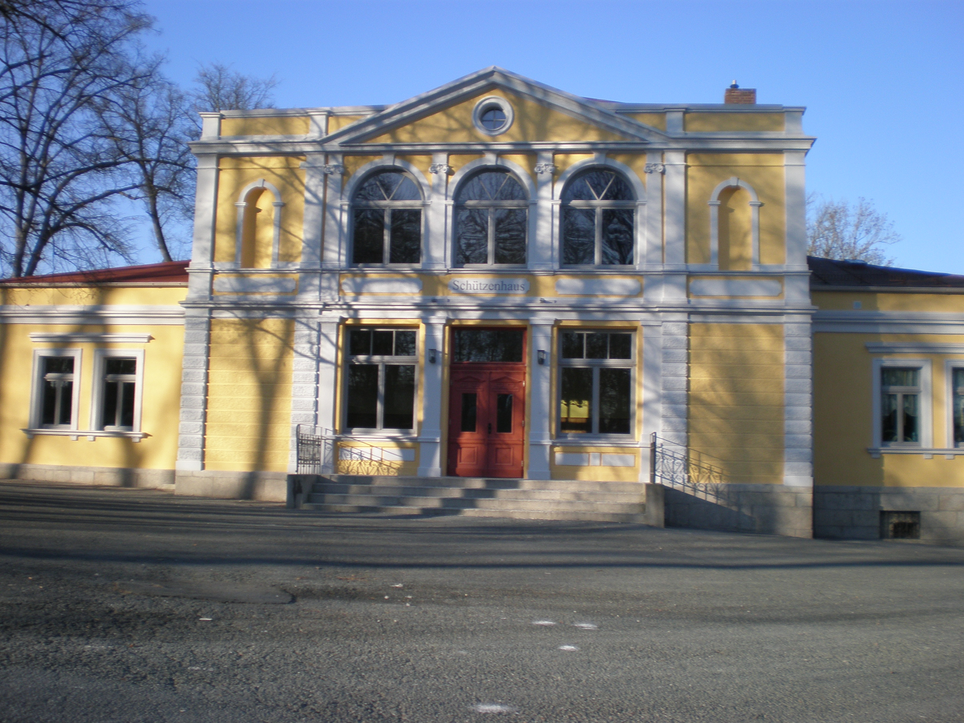 The "Schützenhaus" in Münchberg.